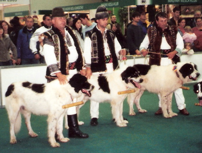 A group of Bosnian and Herzegovinian-Croatian Shepherd Dogs aka Tornjaks from Bosnia being presented in international dog show, Budapest 2008.